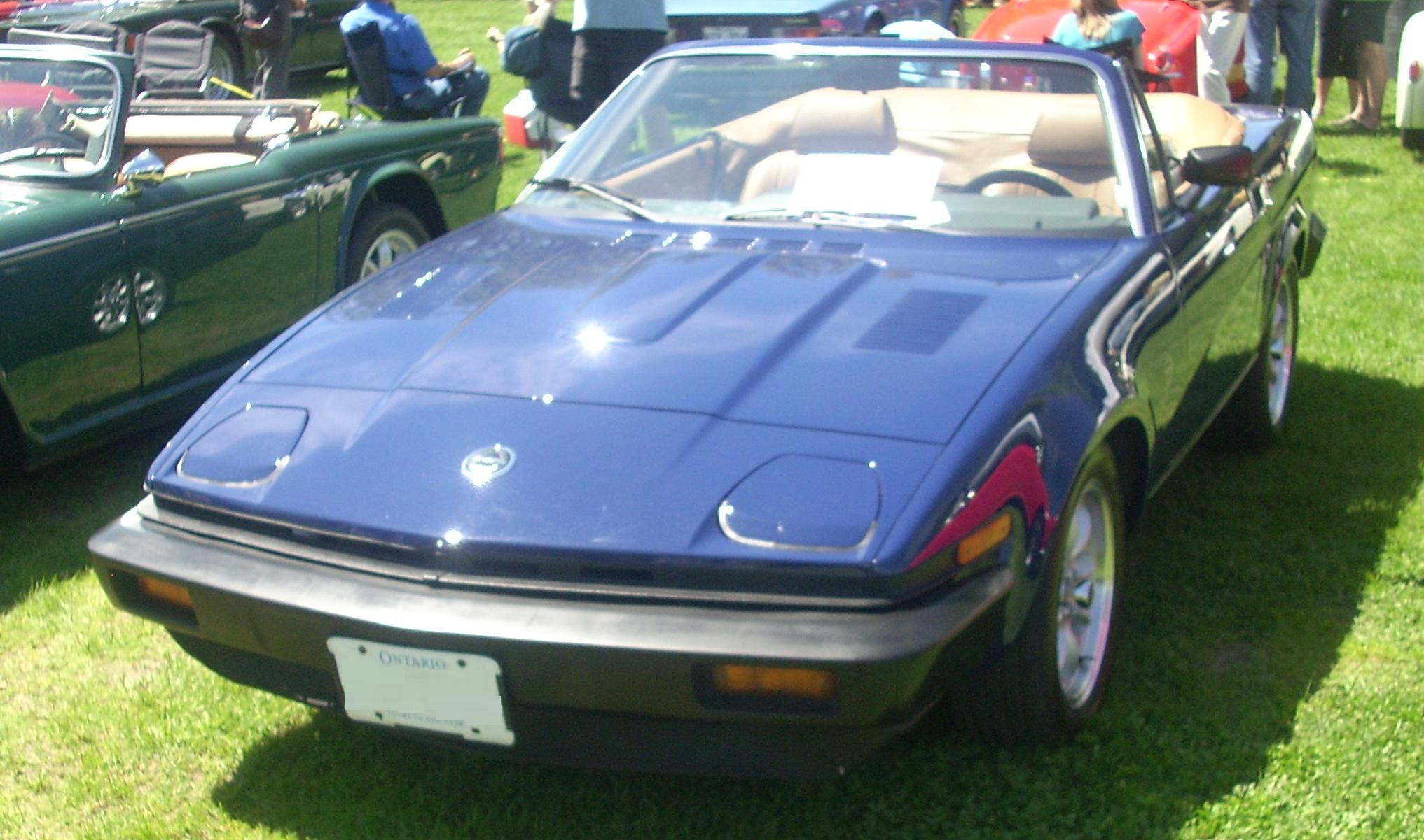 1981 Triumph TR8 photographed at the 2008 Hudson British Car Show